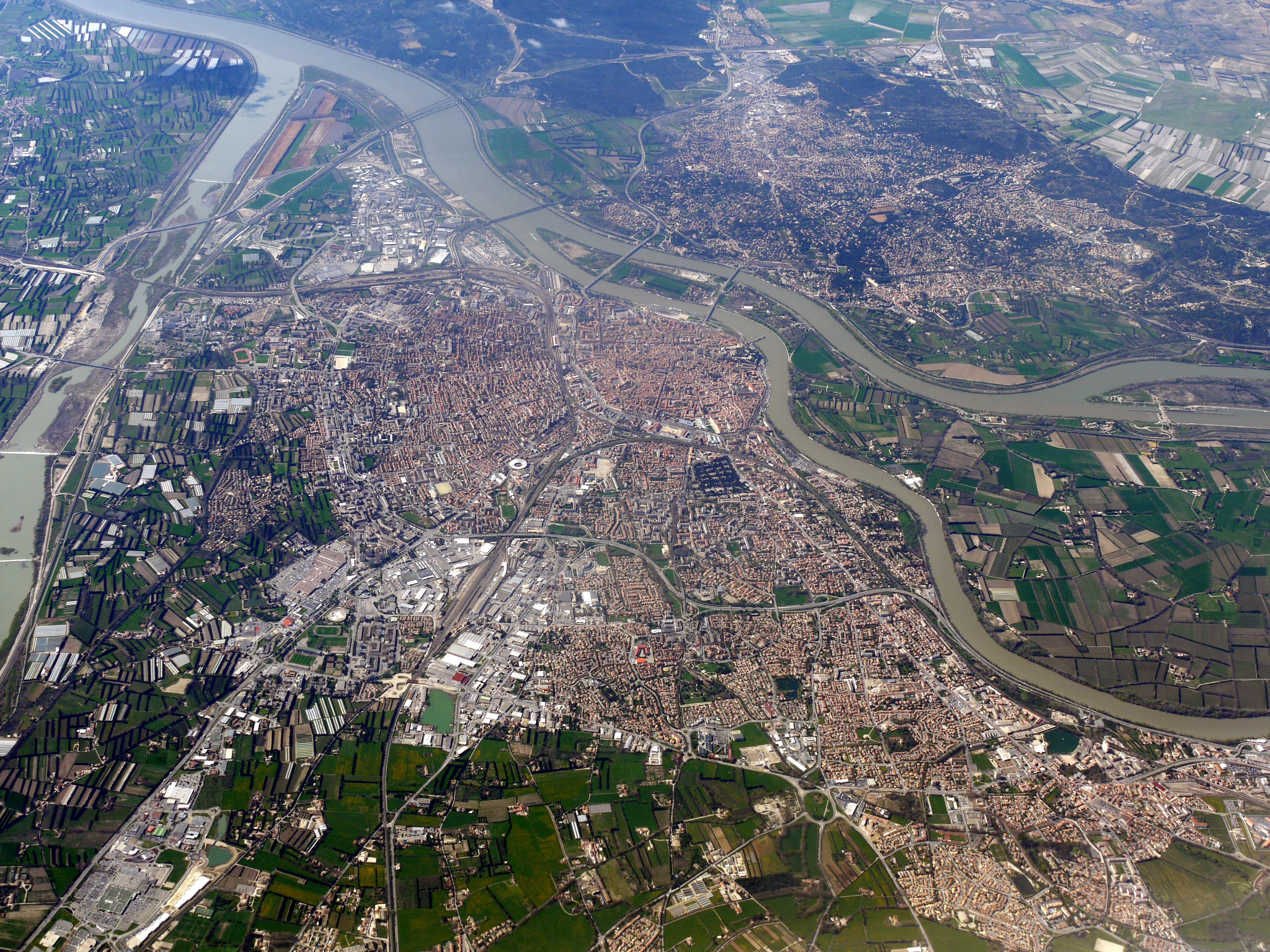 Avignon, photograph taken from the sky, on the fly line between Marseille and Stockholm.